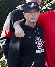 CORONADO, Calif. (Jan. 15, 2020) Members of the San Diego Sate University baseball team visit Naval Special Warfare (NSW) Center in Coronado, Calif., Jan. 15. The team’s visit was an opportunity for its NCAA Division I athletes to learn from the Naval Special Warfare (NSW) Basic Training Command (BTC) staff about NSW and how Navy SEALs build physically and mentally tough teams. NSW BTC falls under NSW Center, which provides initial and advanced training to the Sailors who make up the Navy’s elite SEAL and Special Boat Teams. U.S. Navy photo by Mass Communication Specialist 1st Class Anthony W. Walker (Released) 200115-N-QC706-0088